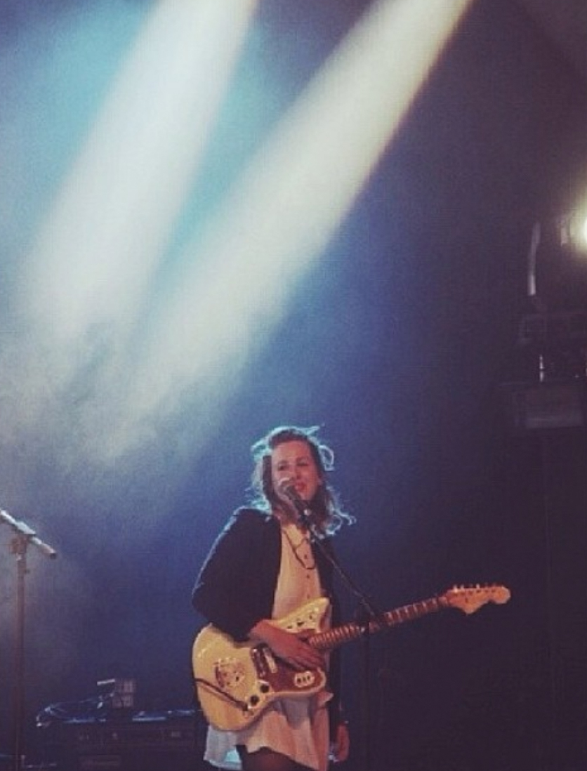 Sonya Kitchell Live in China 2016